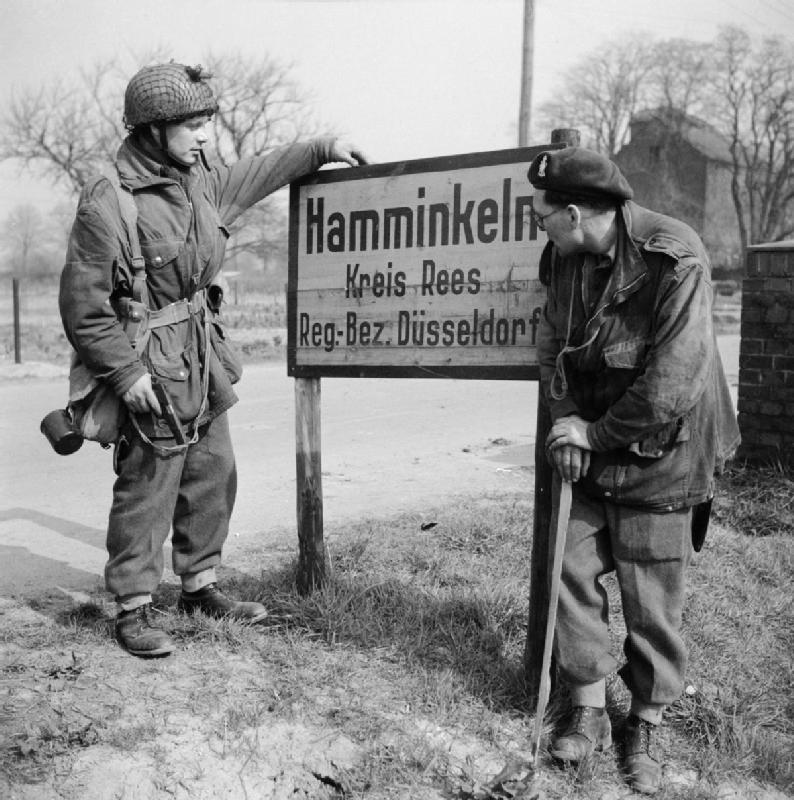 British airborne troops study a sign outside Hamminkeln during operations east of the Rhine, 25 March 1945. Airborne troops study a sign outside Hamminkeln during operations east of the Rhine, 25 March 1945.